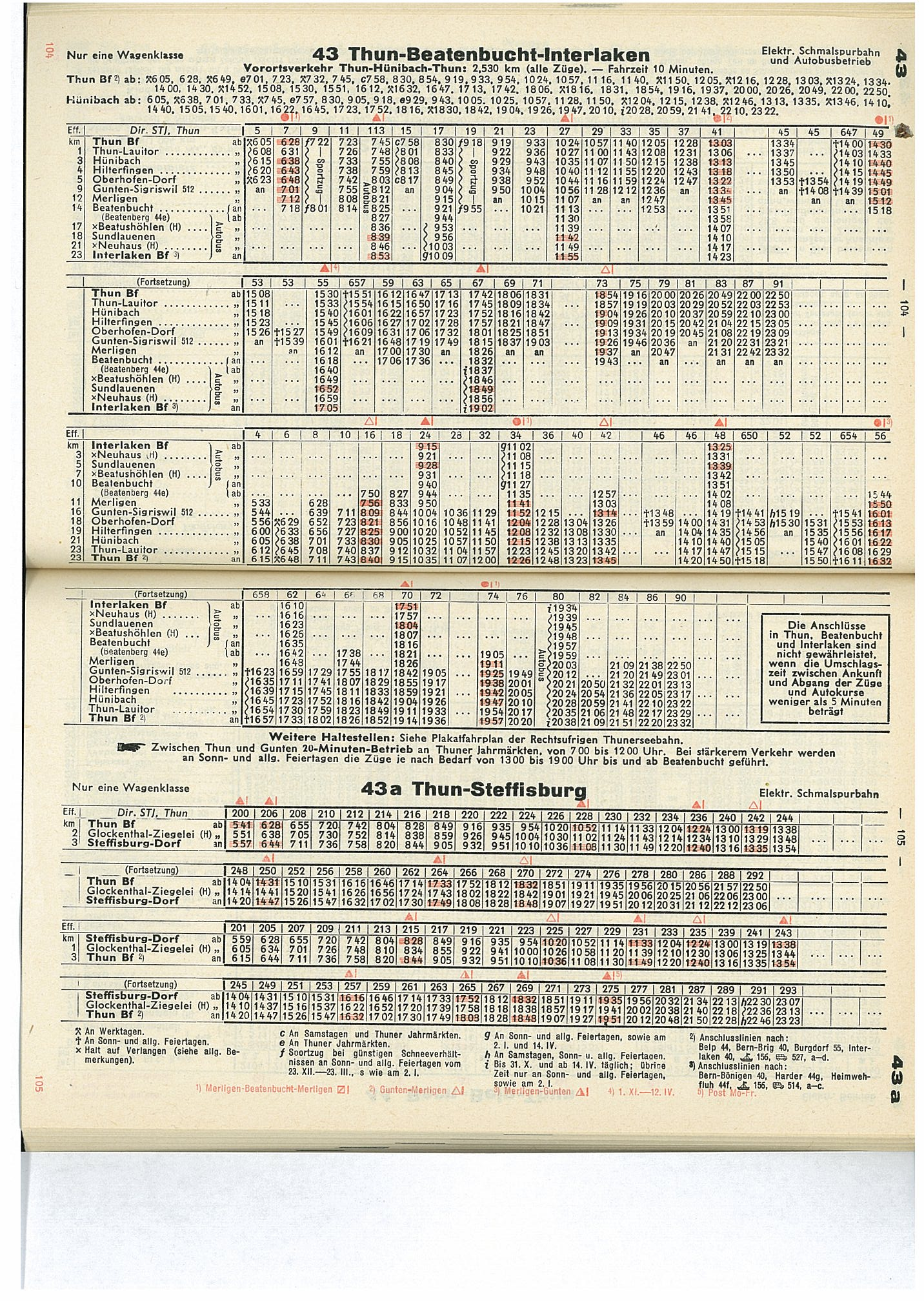 1951/52 Winter timetable of STI, last year of rail operation to Beatenbucht